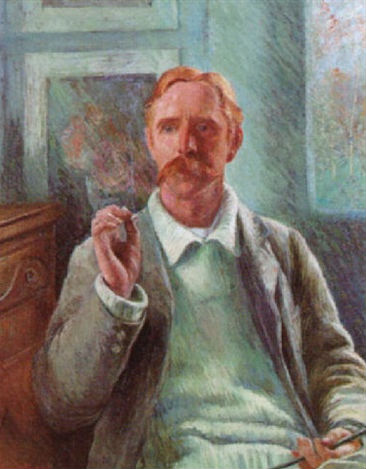 Portrait of her husband, the painter Francis Brooks Chadwick